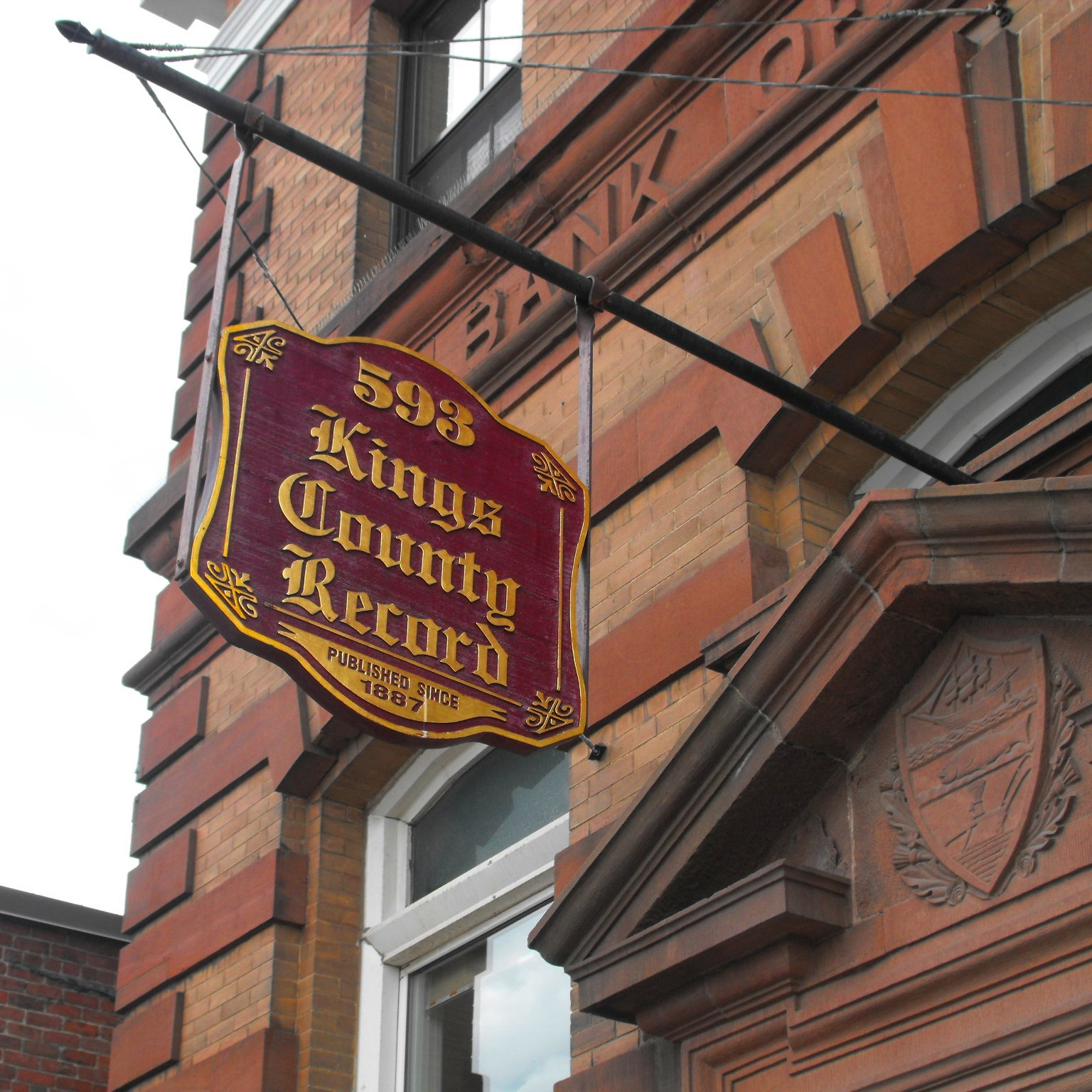 Sign for the Kings County Record, a weekly newspaper published in Sussex, New Brunswick, Canada. The offices are located in a former Bank of Nova Scotia building.